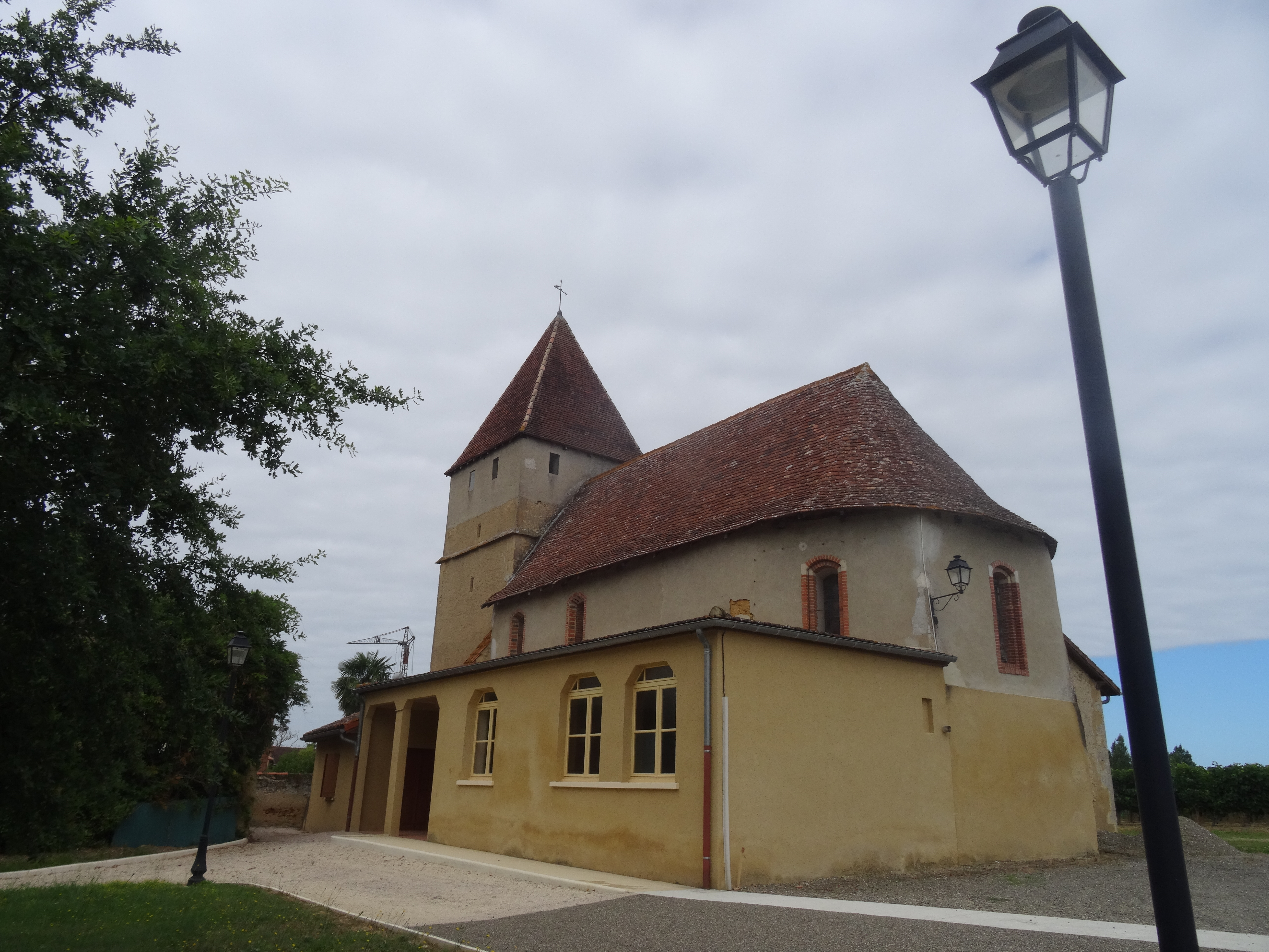 Eglise Notre-Dame de l'Assomption à SORBETS (32)